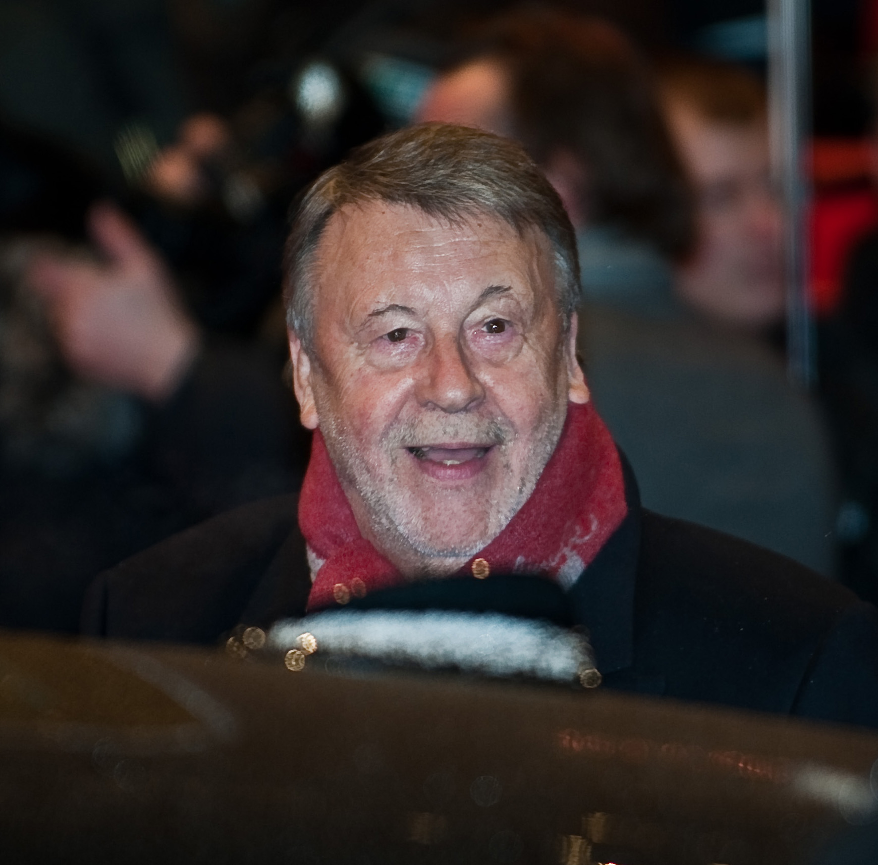 German actor Günter Lamprecht arriving at the opening of the 60th Berlin International Film Festival